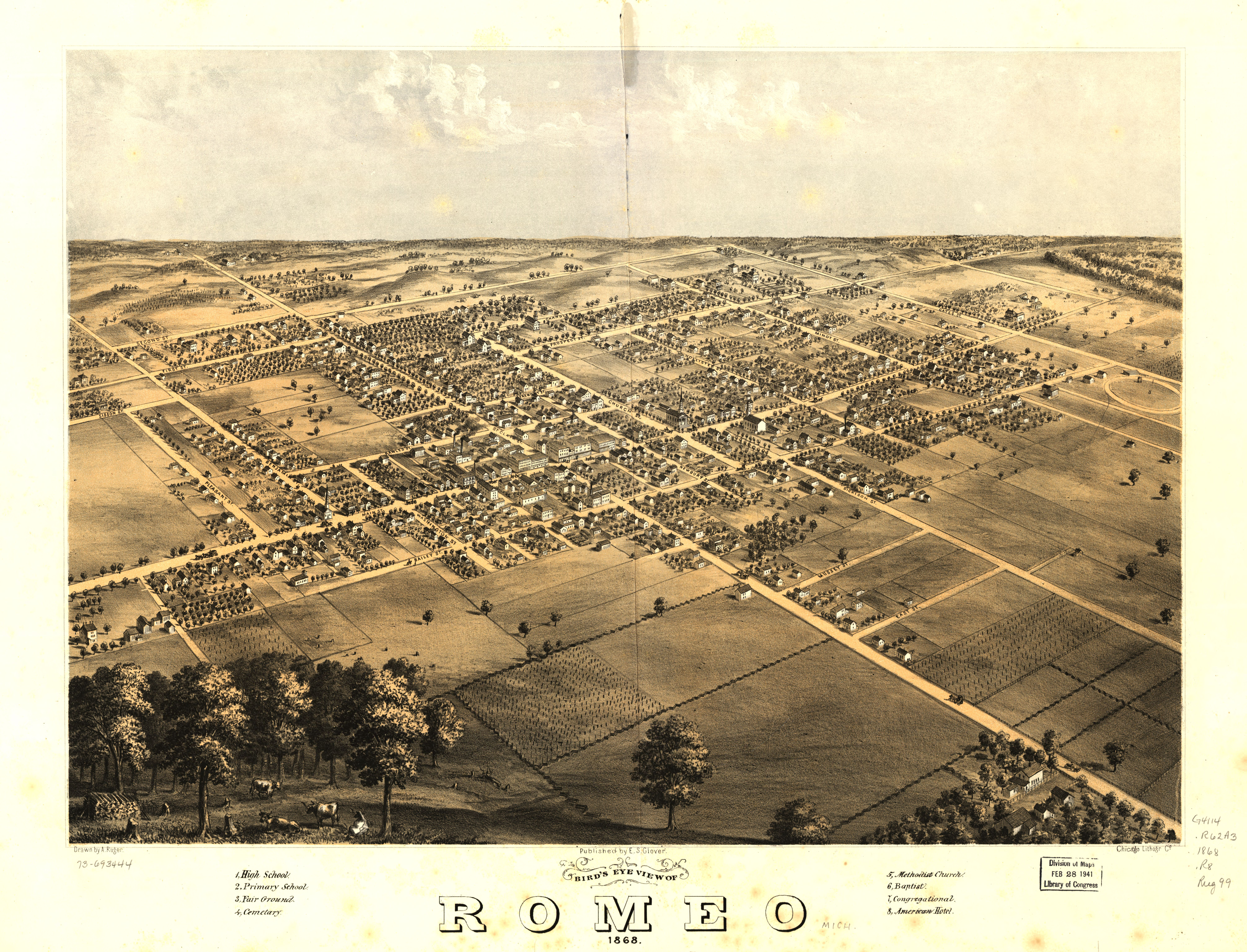 Perspective map not drawn to scale. LC Panoramic maps (2nd ed.), 372 Available also through the Library of Congress Web site as a raster image. Indexed for points of interest. Vault AACR2: 100; 651/1; 700/1; 710/2